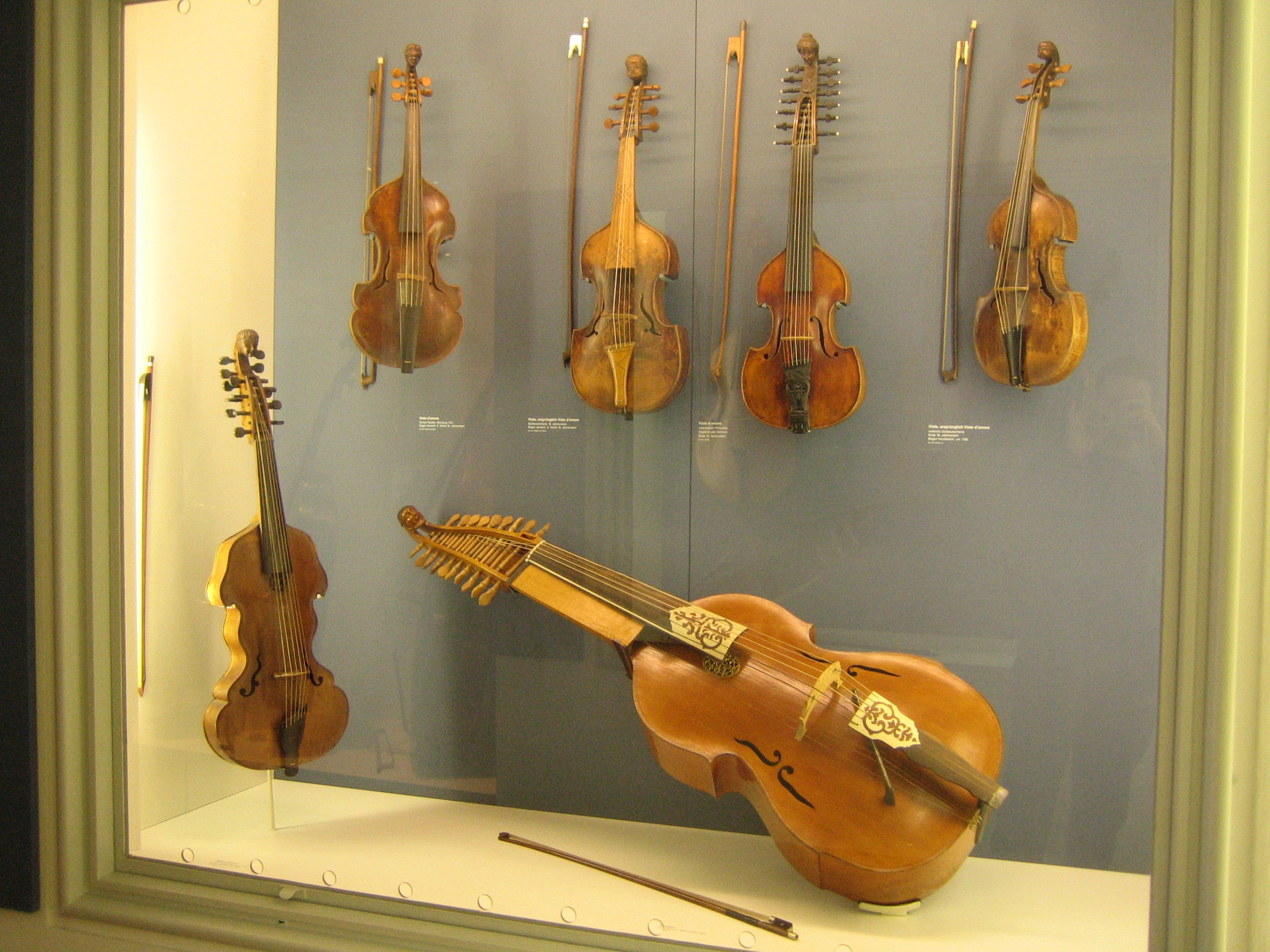 Several Viola d'Amore and Baryton, Deutsches Museum upper left Viola d'amore Norbert Gedler, Würzburg 1721, Bogen deutsch 3. Viertel 18. Jahrhundert Inv.-Nr. ... und ... 2nd right Viola d'amore ursprünglich Philomele, Vogtland oder Böhmen, Ende 19, Jahrhundert Inv.-Nr. 72090 ? bottom center Baryton ... ..., ..., 1925 ? Inv.-Nr. ... description String Instruments with Sympathetic Strings Metal strings vibrate in clearly audible resonances if they are caused to do so by another string. The overhearing harmonics give a melody a special sound. This effect is used in several instruments, specifically in the euphonium and the viola d'amore. The viola d'amore was built in two versions. Both were string with metal strings. The early type has 5 to 7 strings that were bowed in the usual manner, for example, the viola made by Norbert Gedler. The later type, first documented around 1700, has 6 to 14 additional metal strings which lie beneath the finger board and vibrate sympathetically. The euphonium is a bass instrument of the gamba family. It has 6 to 7 gut strings and 10 to 15 metal string beneath the finger board which can vibrate sympathetically, but can also be plucked by the player. This makes it a very dif- ficult instrument to play. It has only been mastered by a few virtuosos. One of the masters of this instrument was the Austrian prince Esterhazy [I or II] who com- manded his director of music, Joseph Haydn, to compose specifically for this instrument. The excellent chamber music available to musicians today stems from this time.